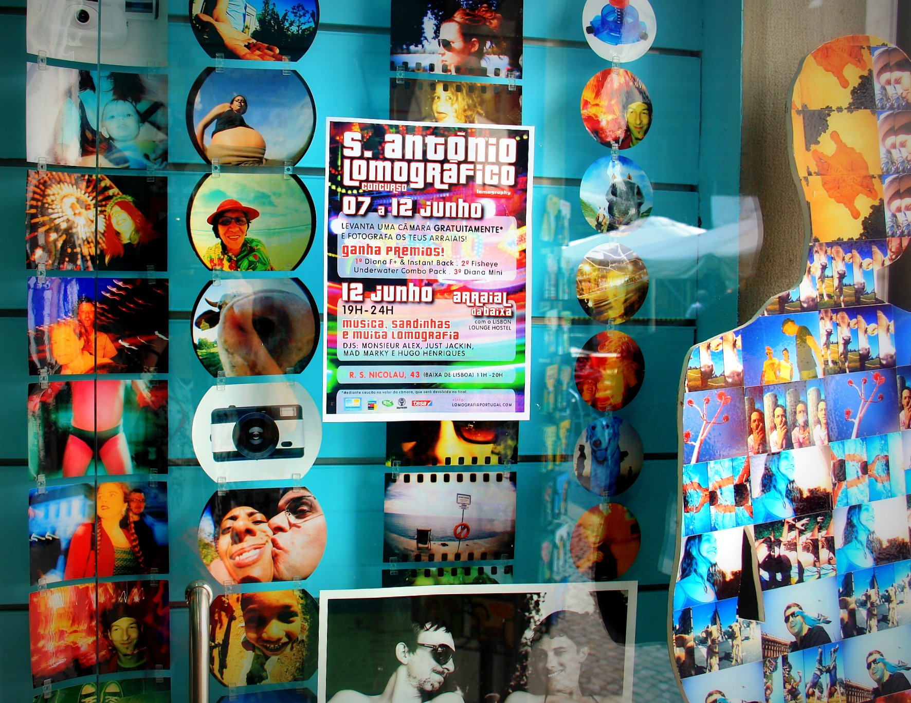 Lomography Embassy Shop of Lisbon